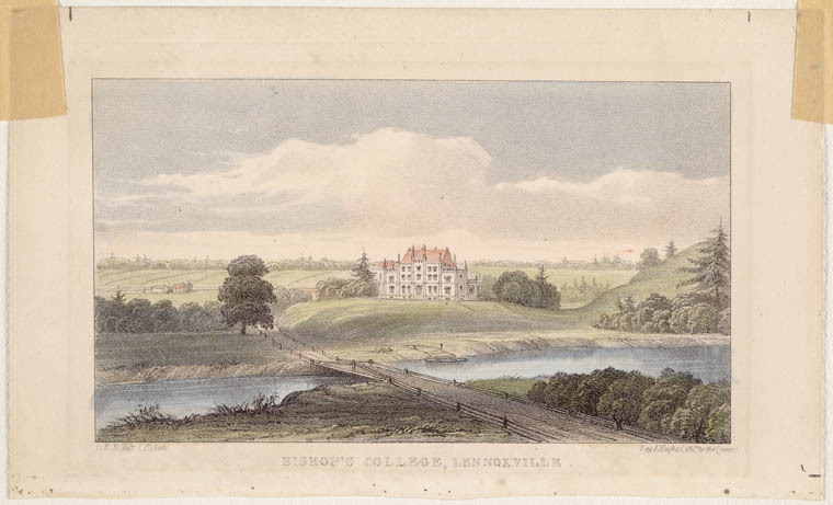 An image of Bishop's College in Lennoxville from across the a body of water. On the lower left, below the image, are the initials CBE which might possibly allude to Caroline Bucknall Estcourt.